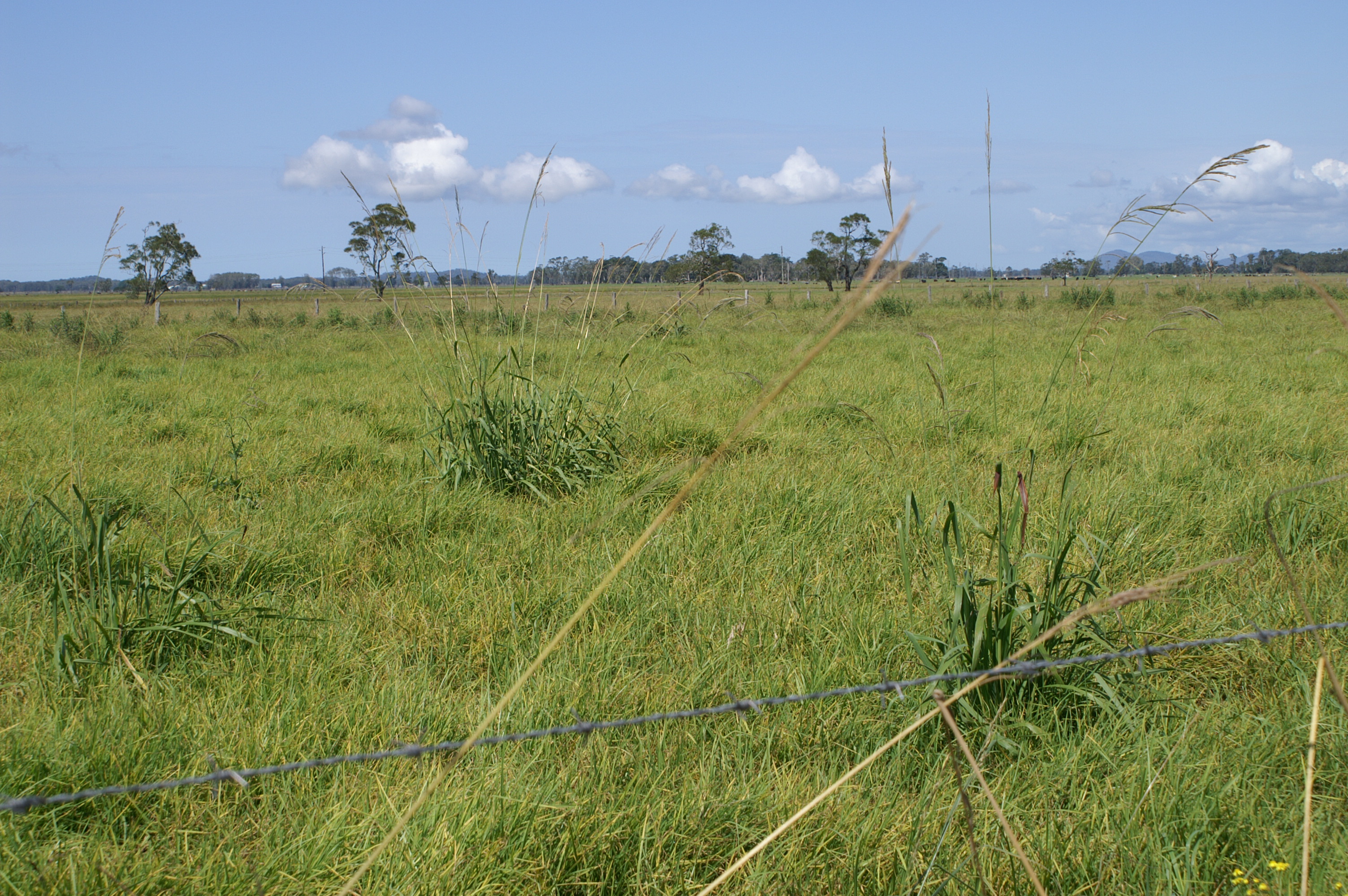 Introduced, warm-season, perennial, densely-tufted grass; forms large clumps up to 2.5 m tall. A native of South America, it is found in moister areas and is flooding tolerant. Most commonly occurs along roadsides, waterways and bush tracks, but also occurs in ungrazed or very lightly grazed pastures. Becomes more common in wetter years.